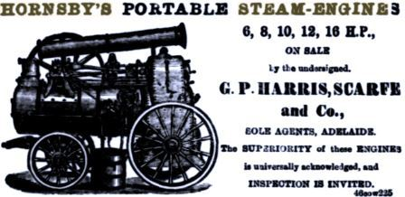 Newspaper advertisement for a portable steam engine, such as might be used to power a large saw. This appliance was sold by the Adelaide firm of Harris, Scarfe, and incongruous when compared with the company's later offerings